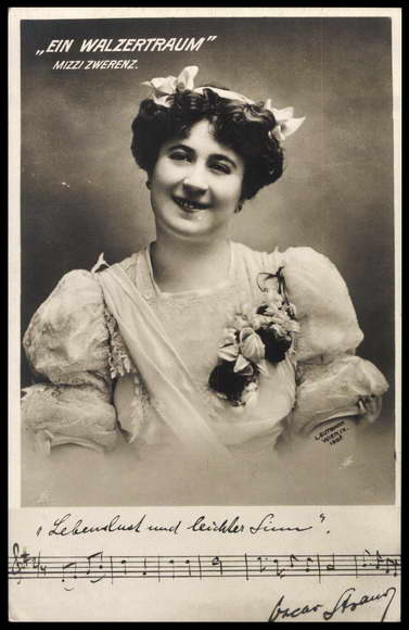 The slovakian-austrian actrice Mizzi Zwerenz (1876-1947)